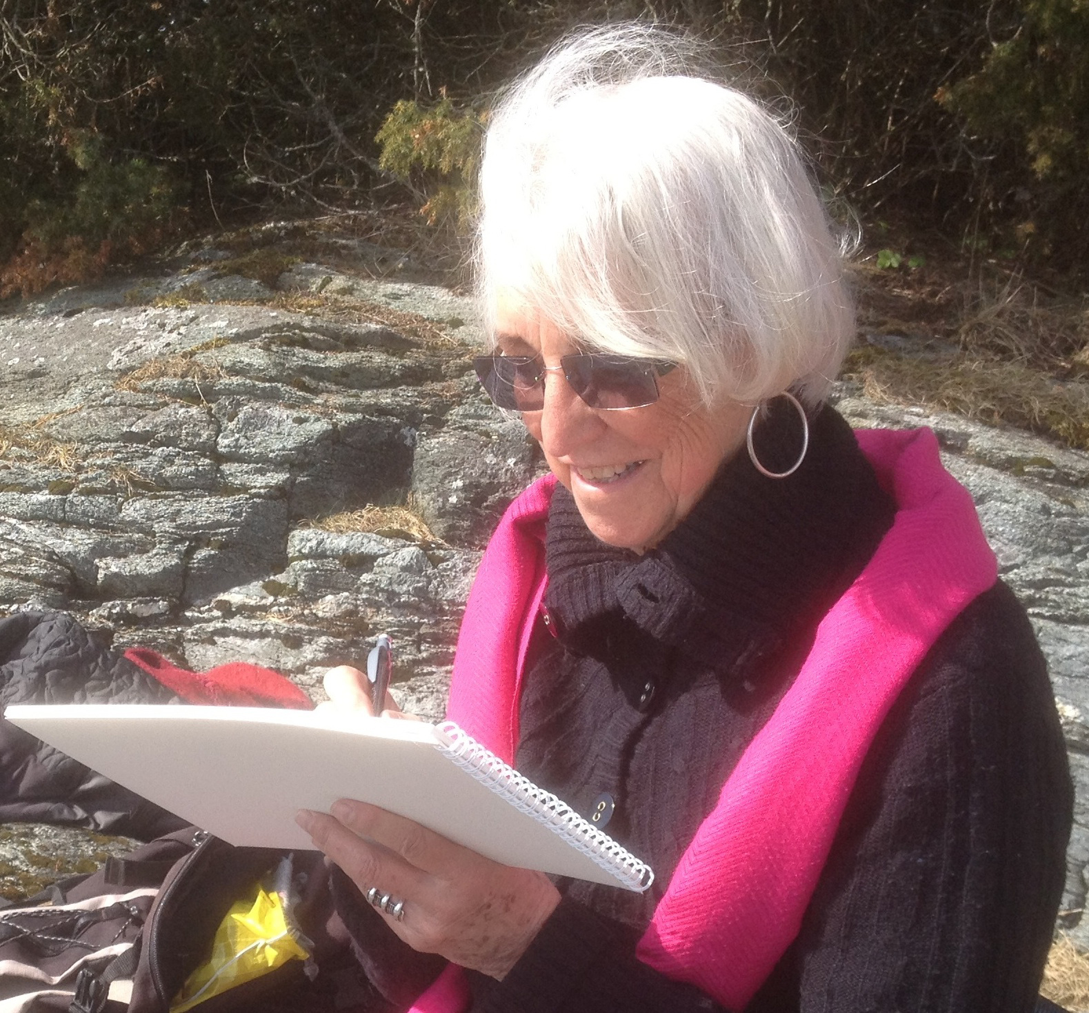 The Danish architect and artist Birgit Cold